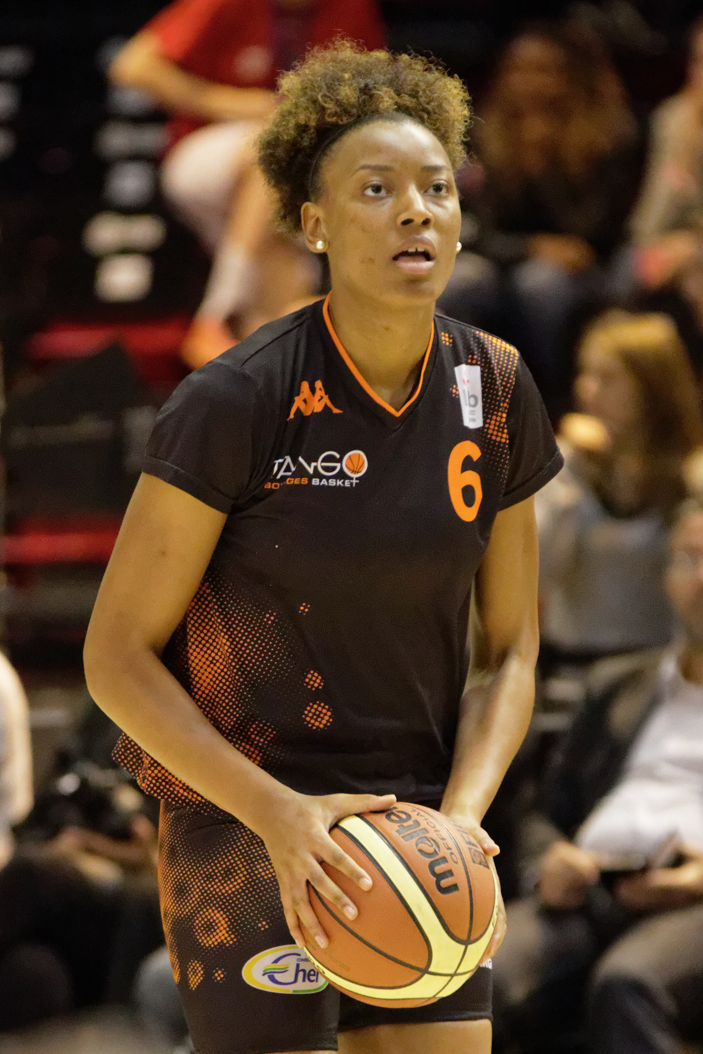 Final of the French Basketball Cup, Lattes-Montpellier vs Bourges, 2nd May 2015.